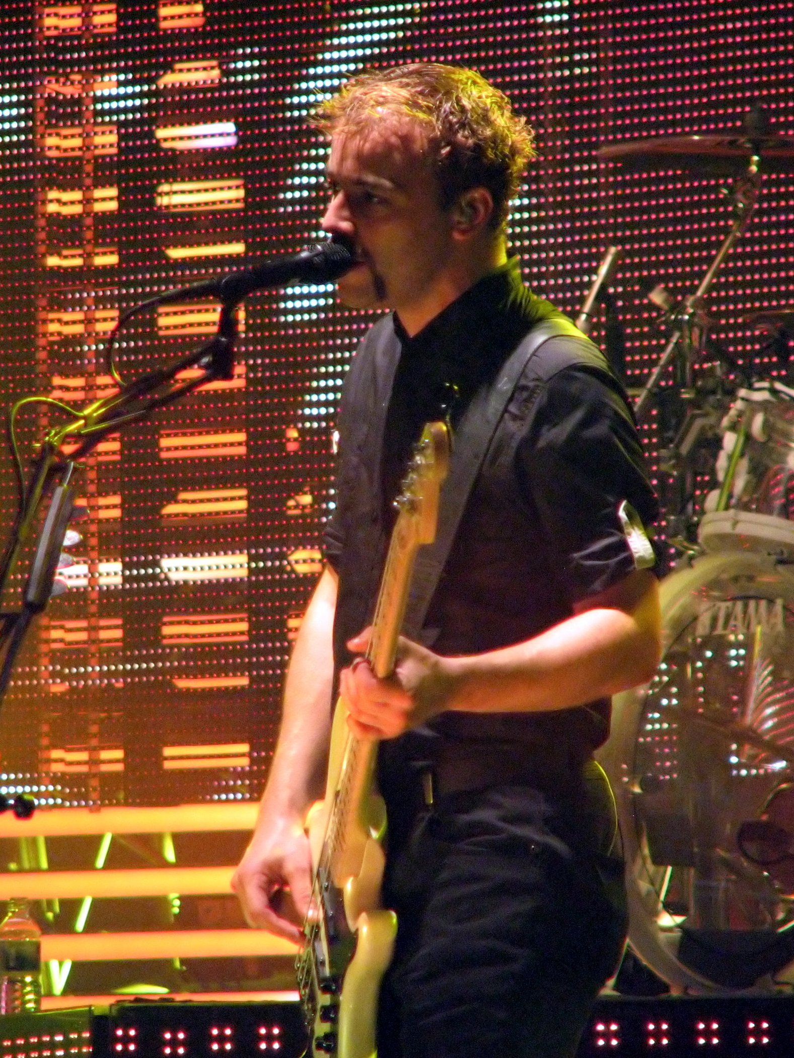 Chris Wolstenholme Live at Toronto, Canada.